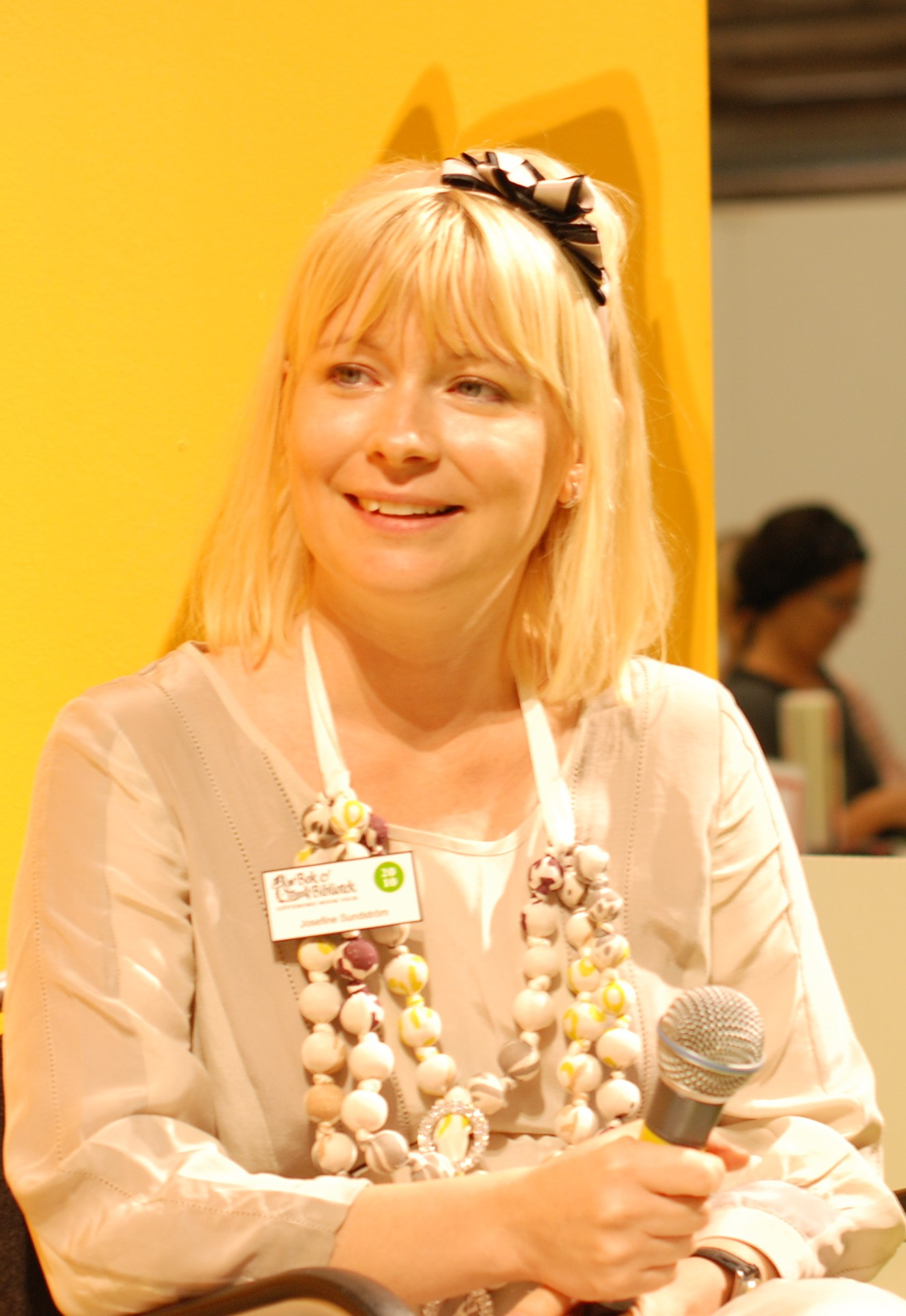 Swedish writer Josefine Sundström at the Göteborg Book Fair 2010